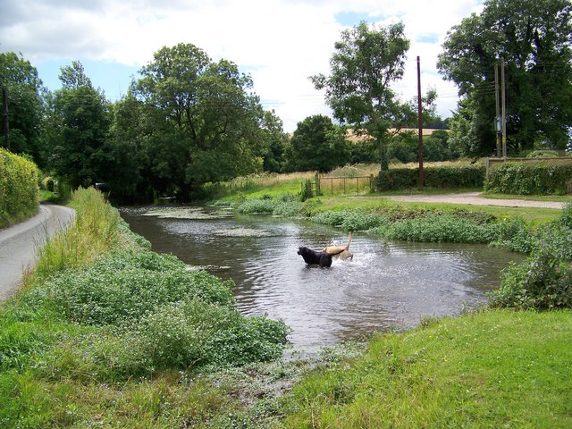 River Wylye at Kingston Deverill The river widens out at this point and it forms a pond like area in the village.